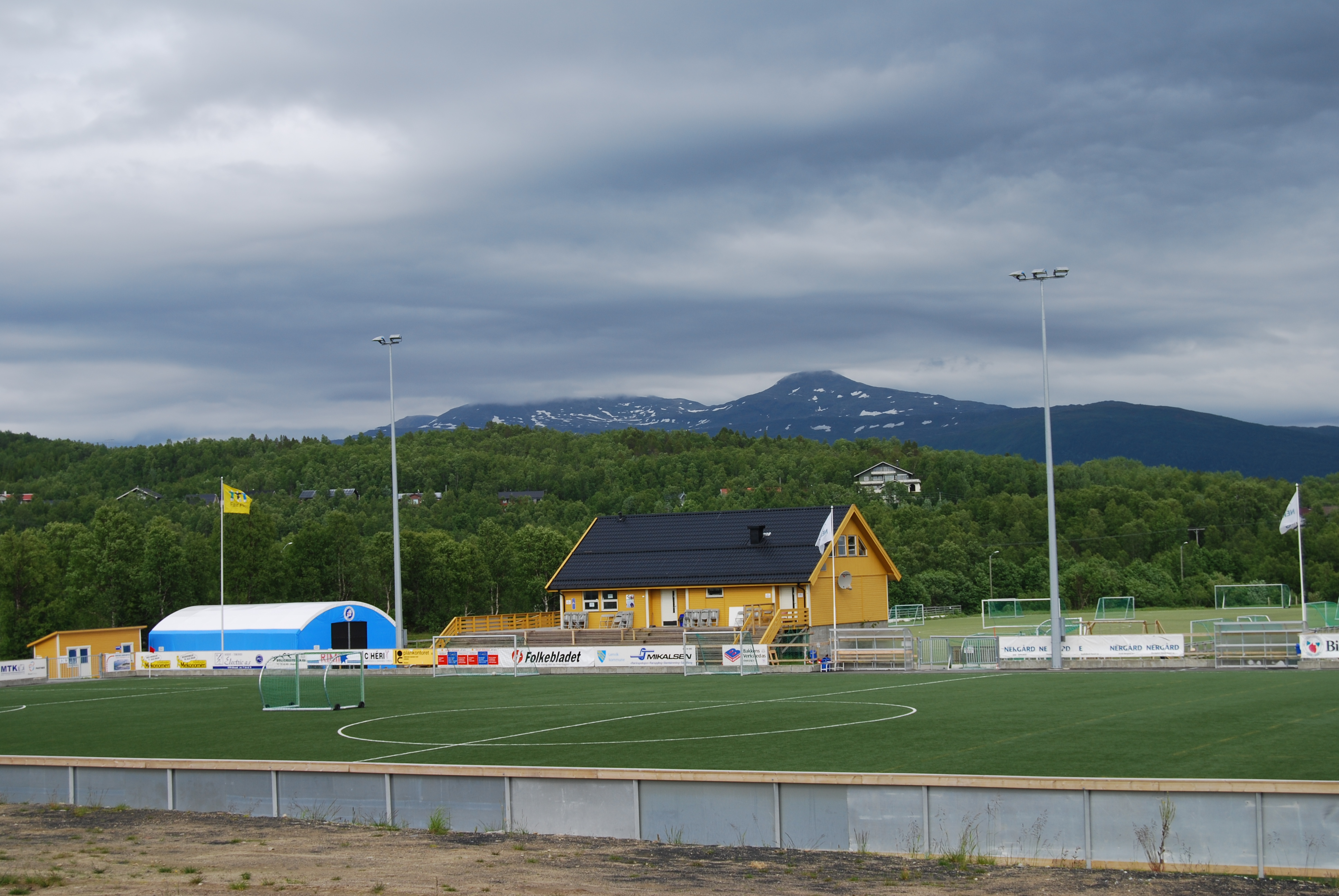 Islandsbotn stadion on Senja, Lenvik, Norway.